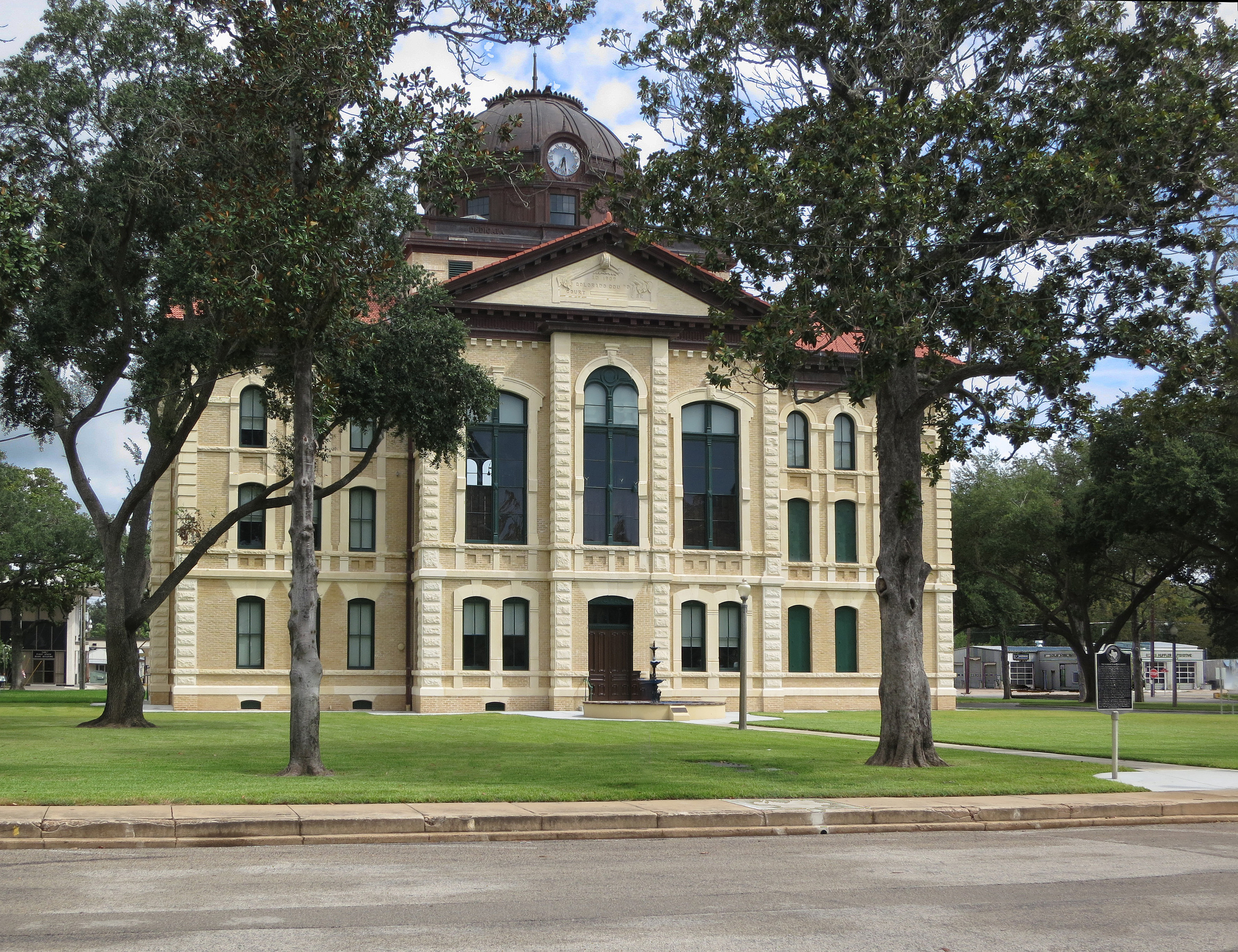 This classic revival building - erected in 1890-1891 in form of a Greek cross - is now one of 28 oldest existing courthouses in Texas' 254 counties. Contractors Martin, Byrne & Johnson built the structure of brick and Belton stone. Local Masonic Lodge laid cornerstone. In 1909 a tornado severely damaged building. Large bell in cupola-clock tower fell 120 feet and was completely buried in the earth. $15-a-month job of clock-winder was subsequently canceled. During repairs, present copper dome was added. In 1939 entire building was remodeled, and in 2014 along with further restoration it was reverted to its original color scheme.